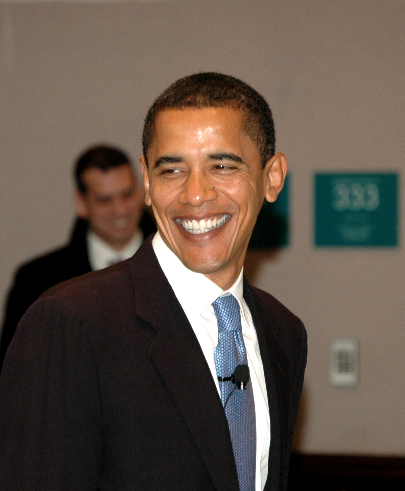 On Jan. 26-27, 2007 at Gallaudet University in Washington DC, SEIU local union leaders individually questioned eight Democratic presidential hopefuls—Sen. Hillary Clinton (D-NY), Sen. Barack Obama (D-IL), Sen. Joe Biden (D-DE), Rep. Dennis Kucinich (D-OH), former Sen. John Edwards (D-NC), Sen. Chris Dodd (D-CT), Gov. Bill Richardson (D-NM), and former Gov. Tom Vilsack (D-IA) —about where they stand on the issues that matter most to SEIU members: affordable health care, good jobs, and retirement security.